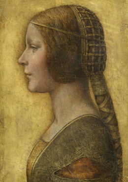 Nuptial Portrait of a Young Woman